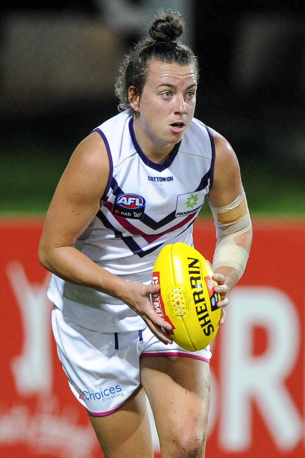 Tayla Bresland in the AFL Women's preseason match between the Adelaide Football Club and Fremantle Football Club on 20 January 2018 at TIO Stadium.